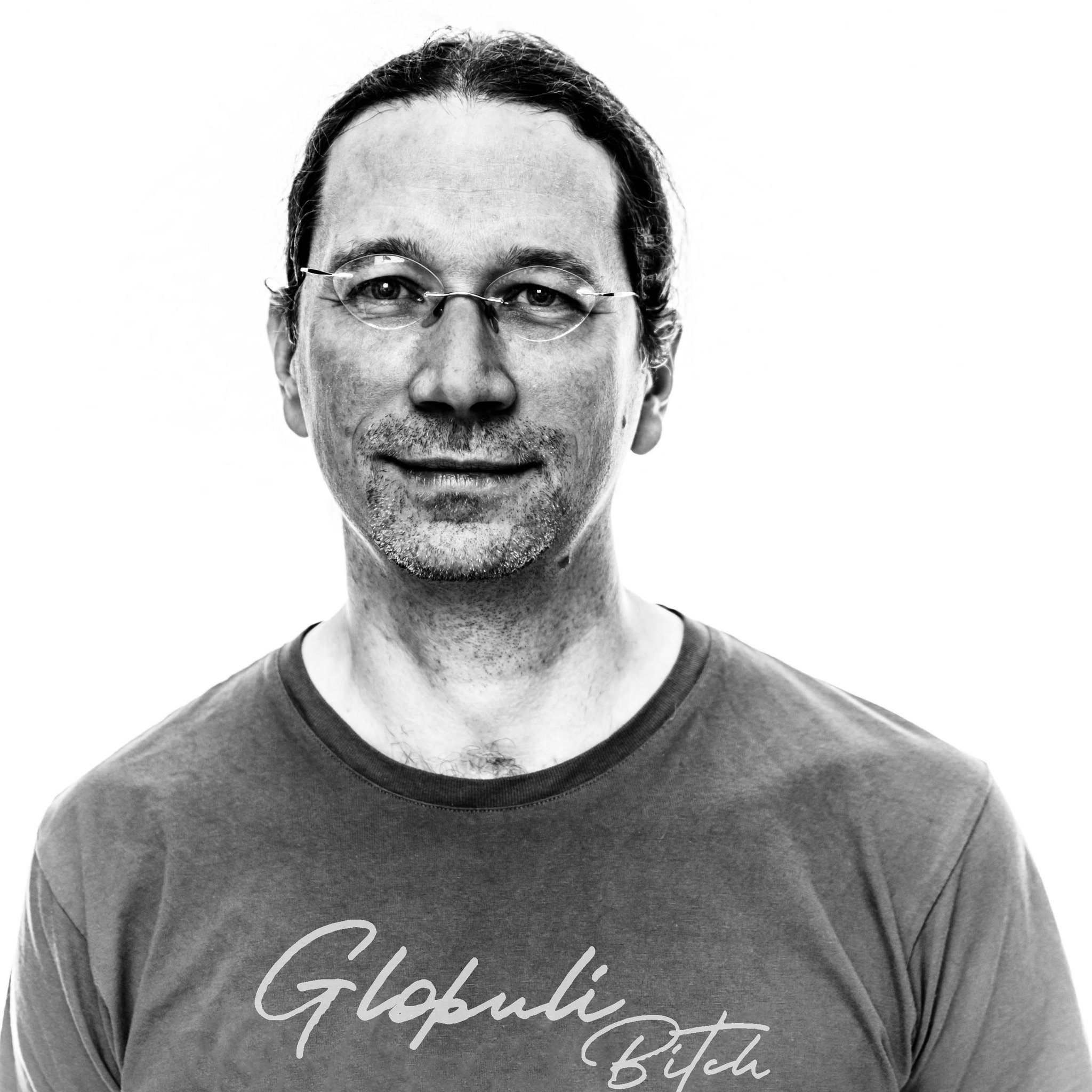 Nicolas Woehrl